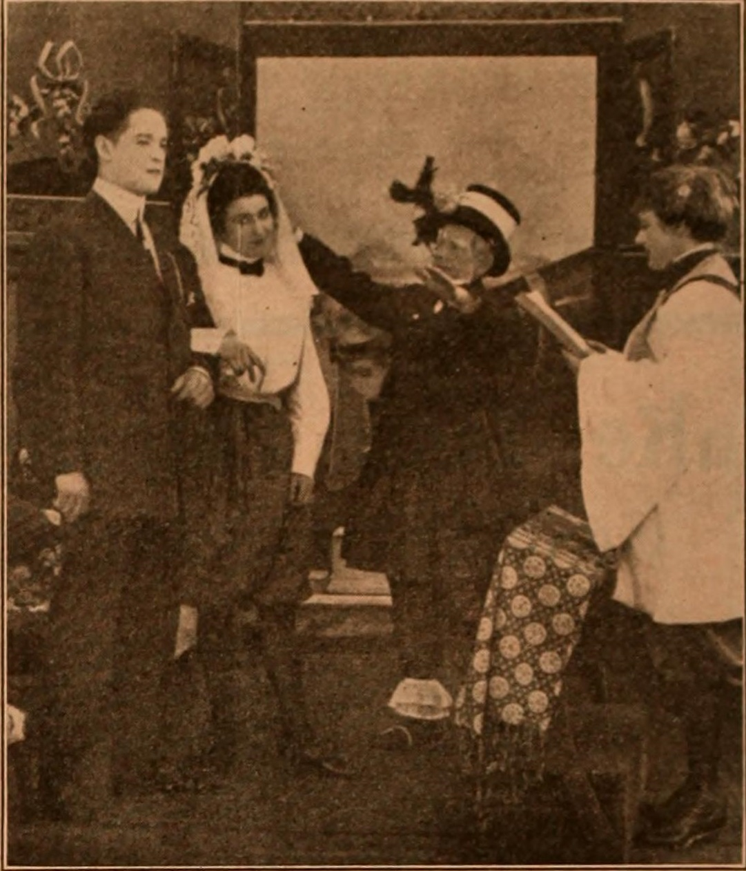 A film still from Looking Forward by the Thanhouser Company. Released in 1910.